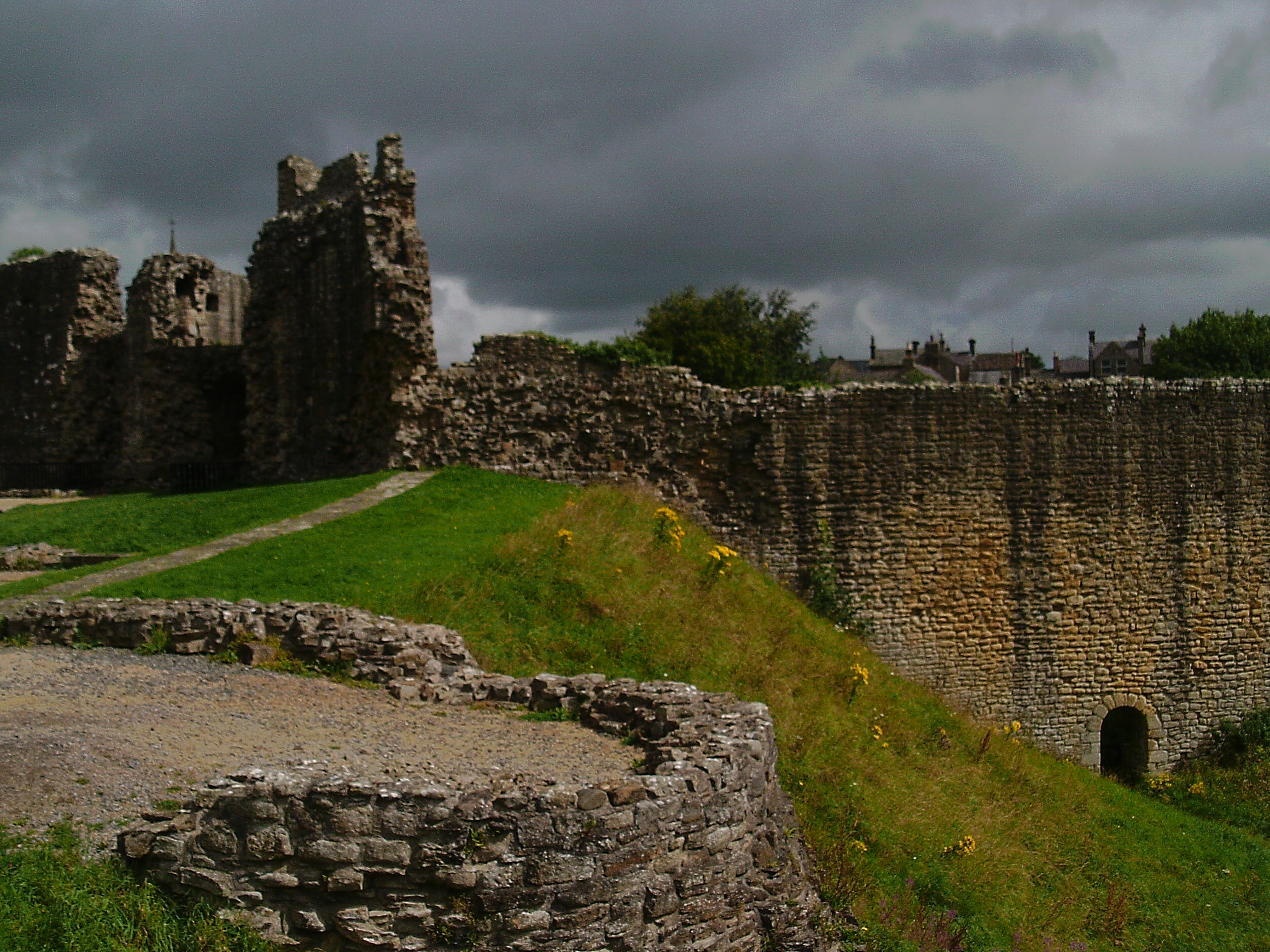 Barnard Castle, looking towards the Great Ditch